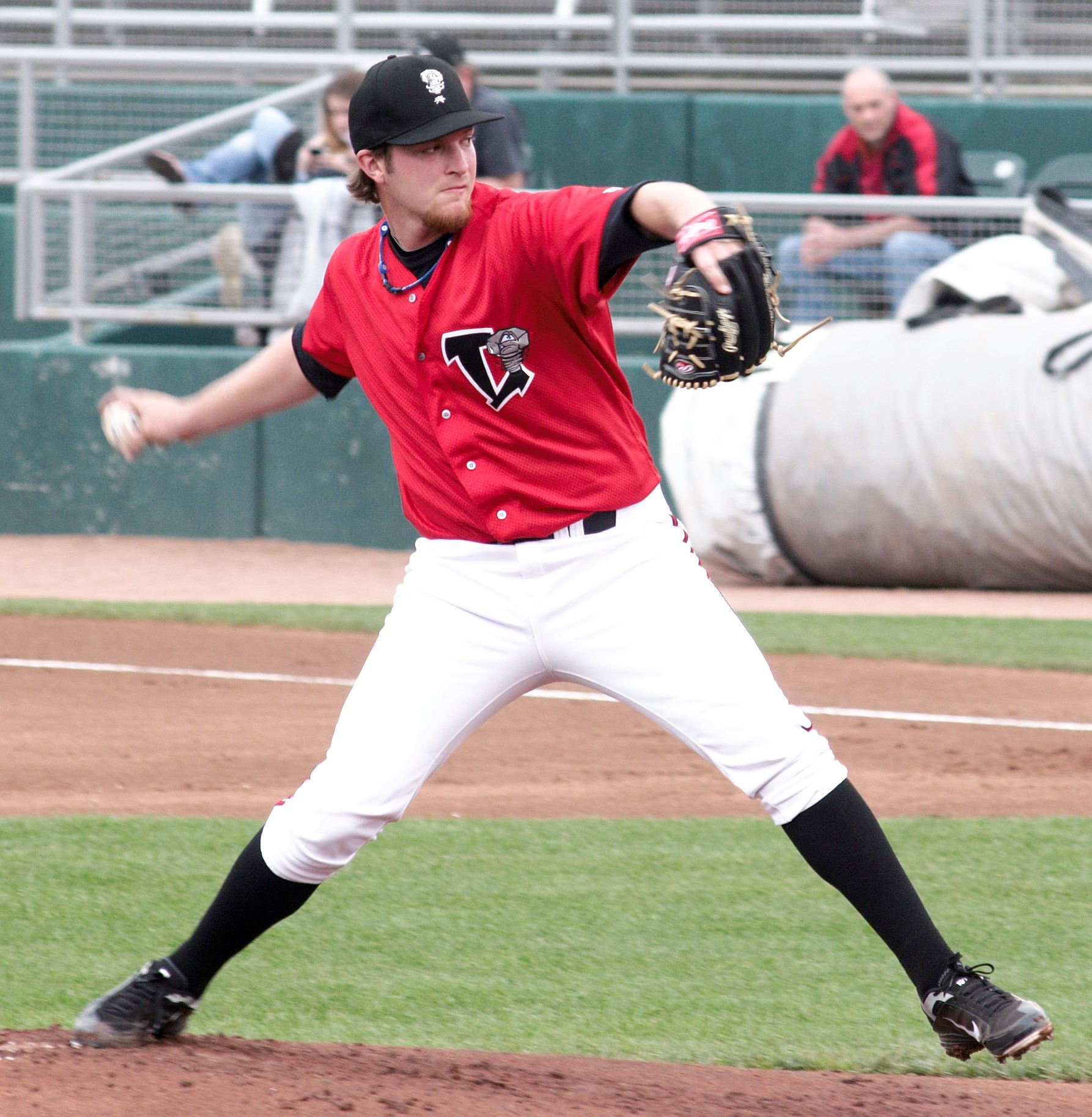 Daniel Webb on May 9, 2011